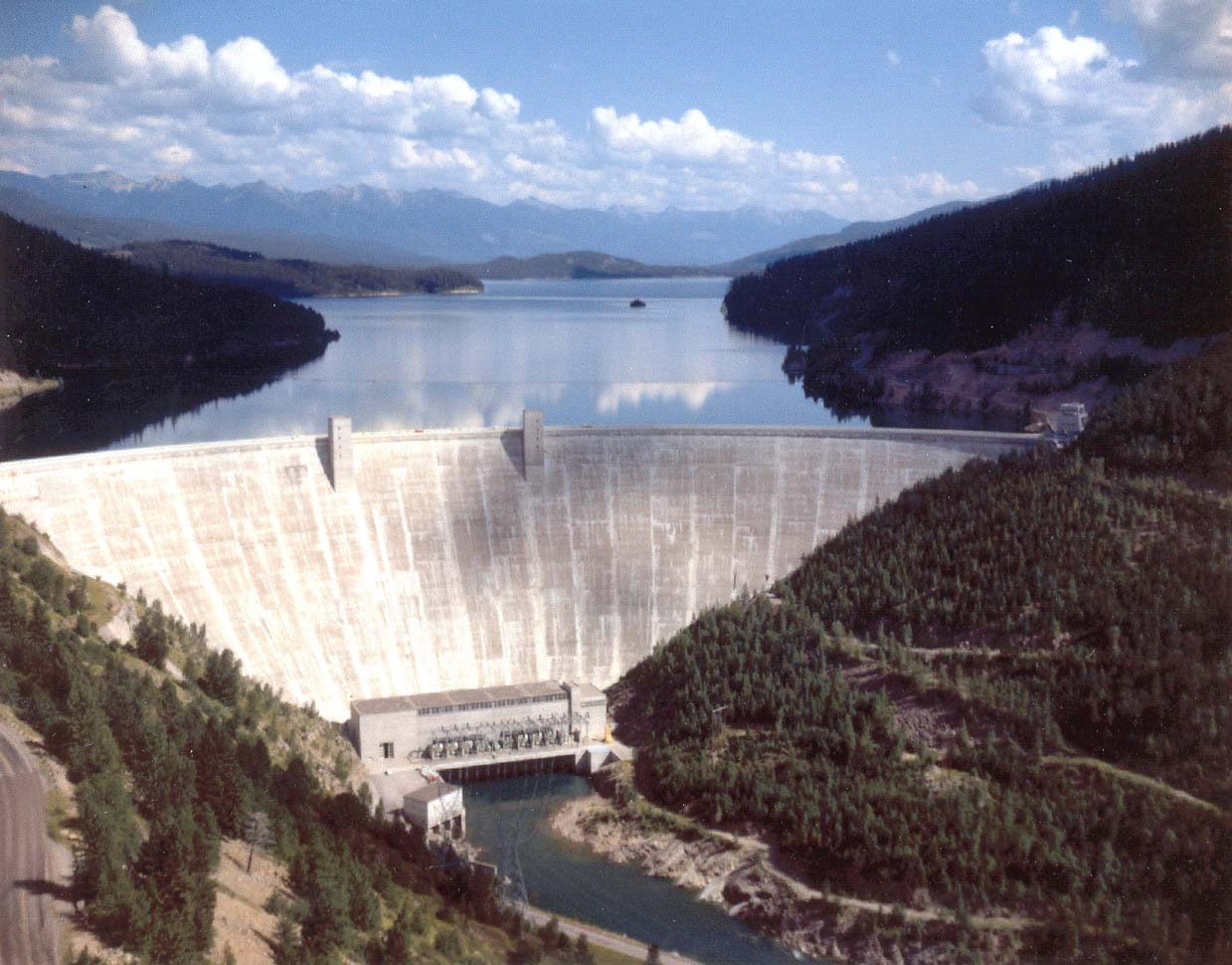 Hungry Horse Powerplant, Montana, USA